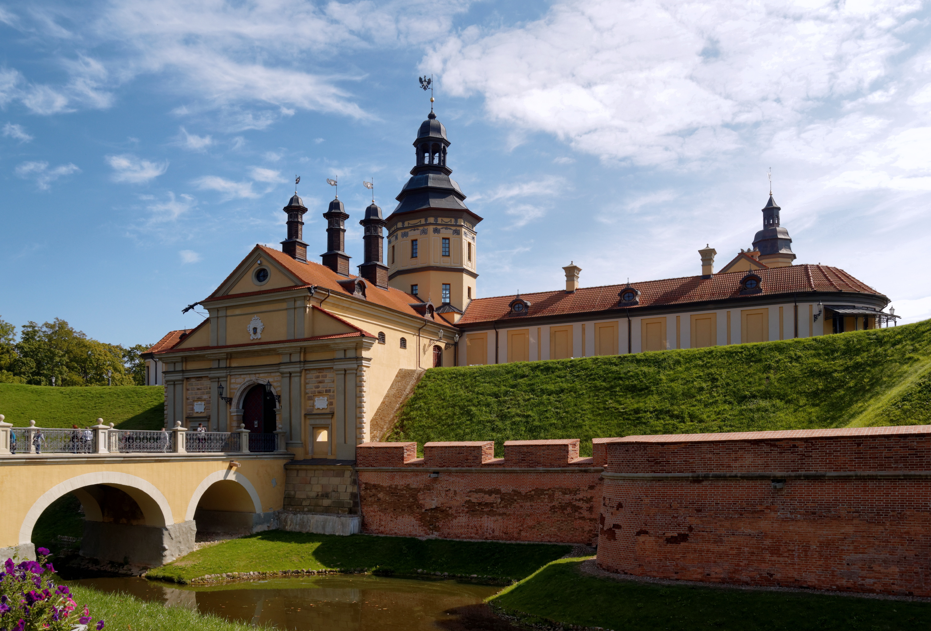 Belarus. Nesvizh Castle